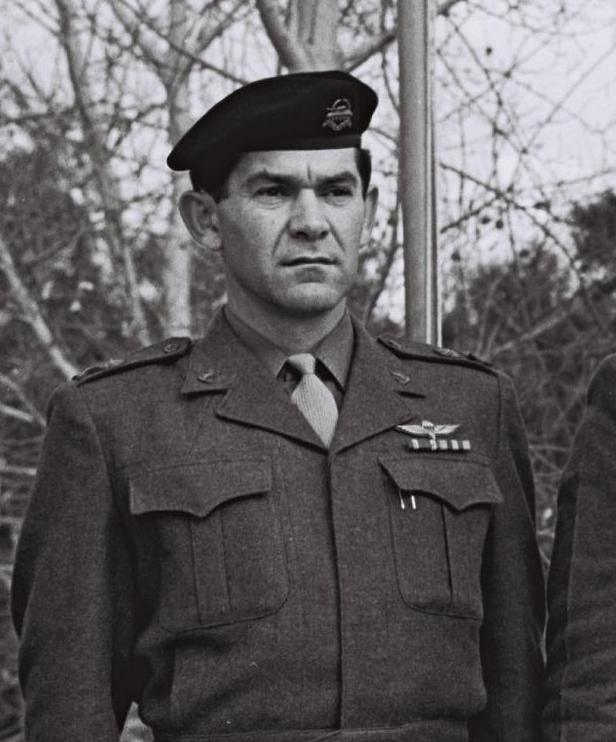 David Elazar attending the passing out parade.